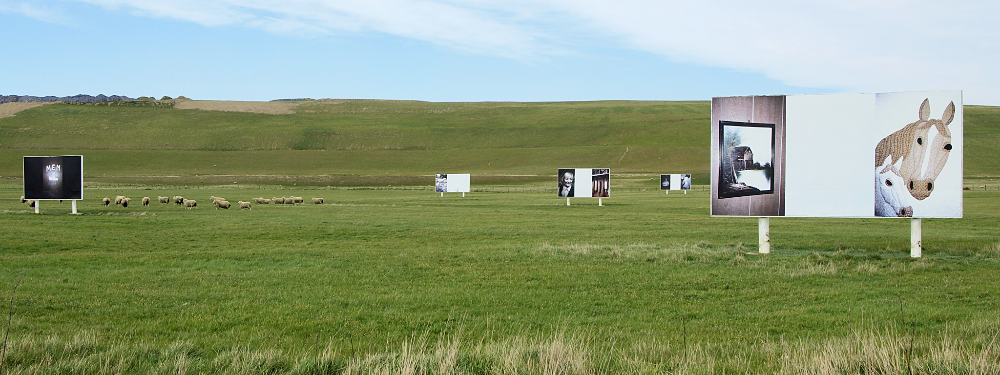 Objects of Arts from Gavin Hipkins installed in Macraes Flat, Otago, New Zealand.